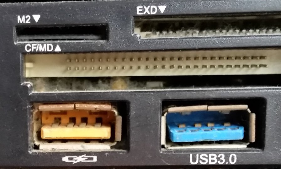 An orange charge-only USB port on a front panel USB 3.0 switch with card reader.